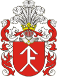 Herb Piłsudski Clan File:POL COA Piłsudski.svg is a vector version of this file. It should be used in place of this raster image when not inferior. File:Herb Piłsudski.PNG File:POL COA Piłsudski.svg For more information, see Help:SVG. In other languages